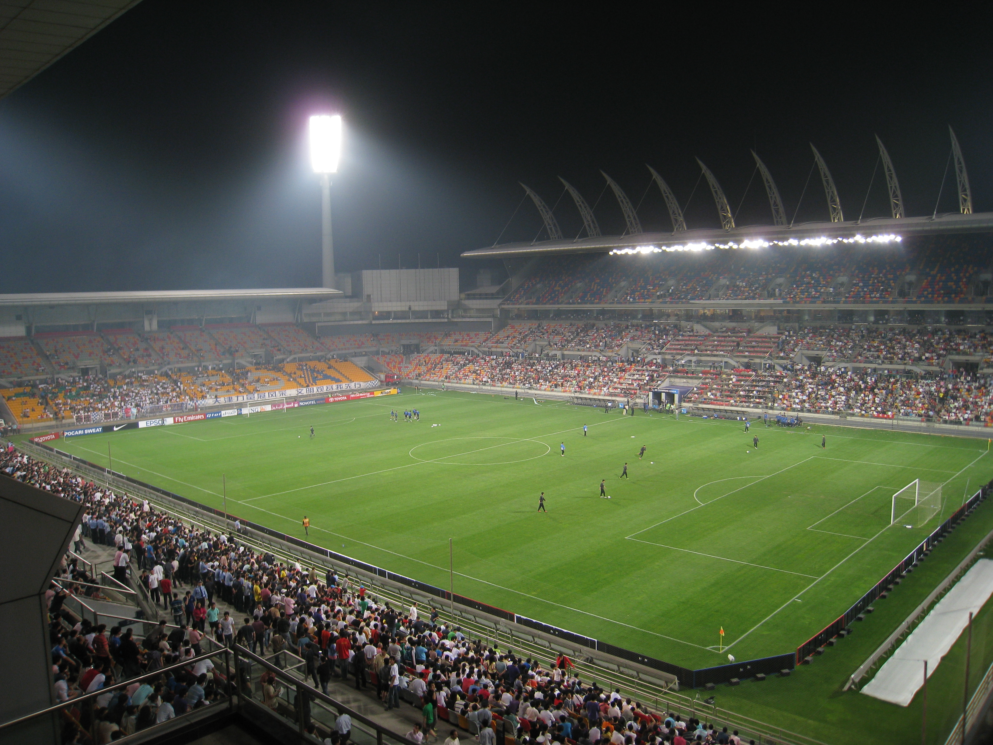 Tianjin Football Stadium. This Photoglah was taken by me. Asia Champions League 2009.